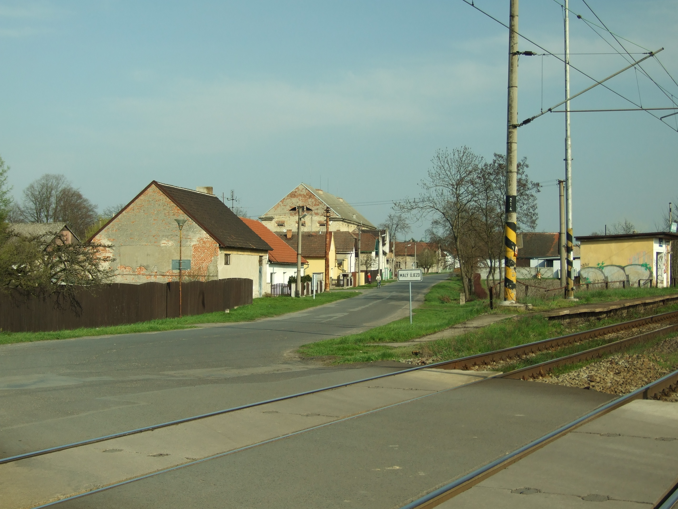 Malý Újezd village seen from southern side - from train stop. Mělník District, Central Bohemian Region, CZ